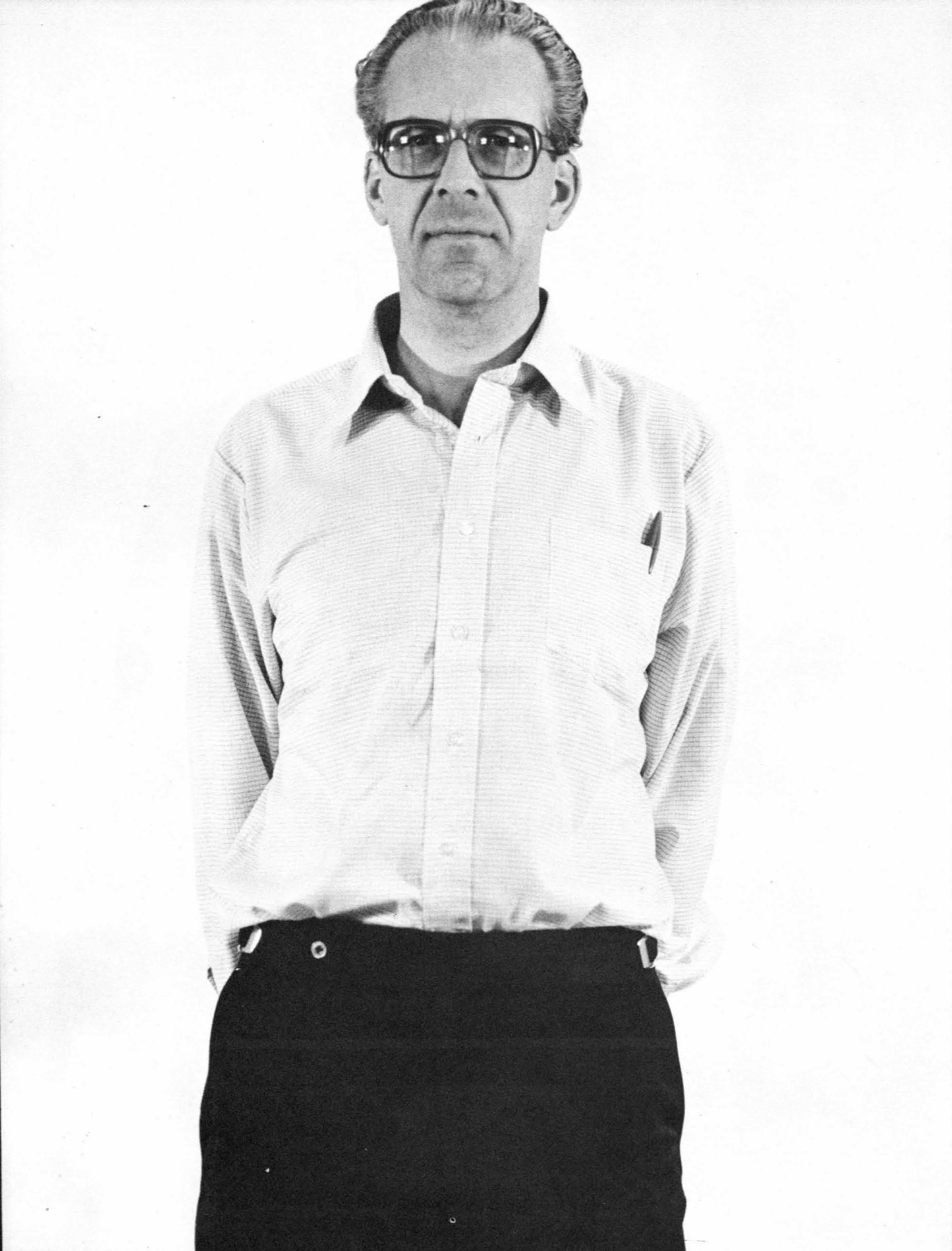 California Institute of Technology Professor Maarten Schmidt